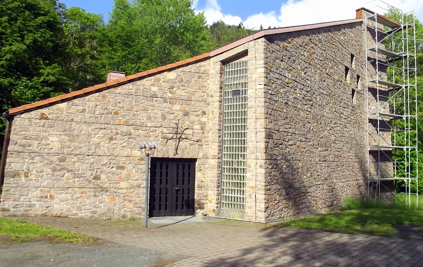 Exterior of the protestant church in Türkismühle, Saarland, Germany